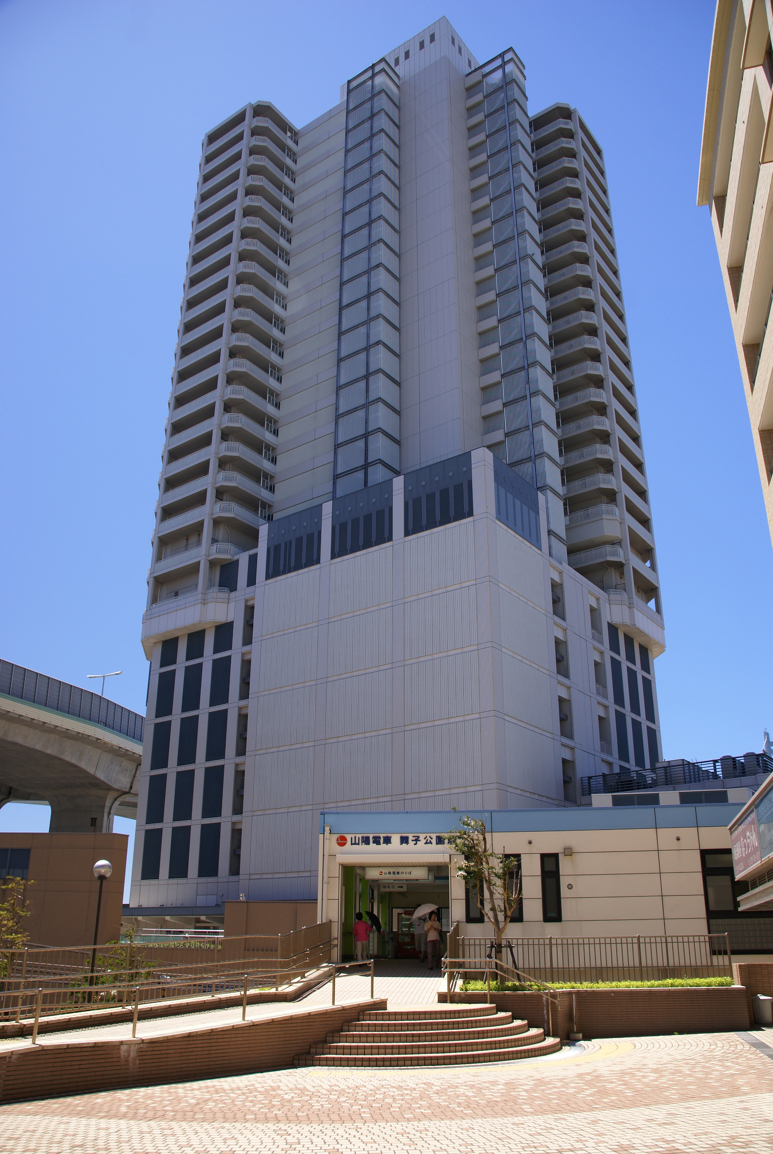 Tio Maiko and Maiko-koen Station in Kobe City, Hyogo Prefecture, Japan